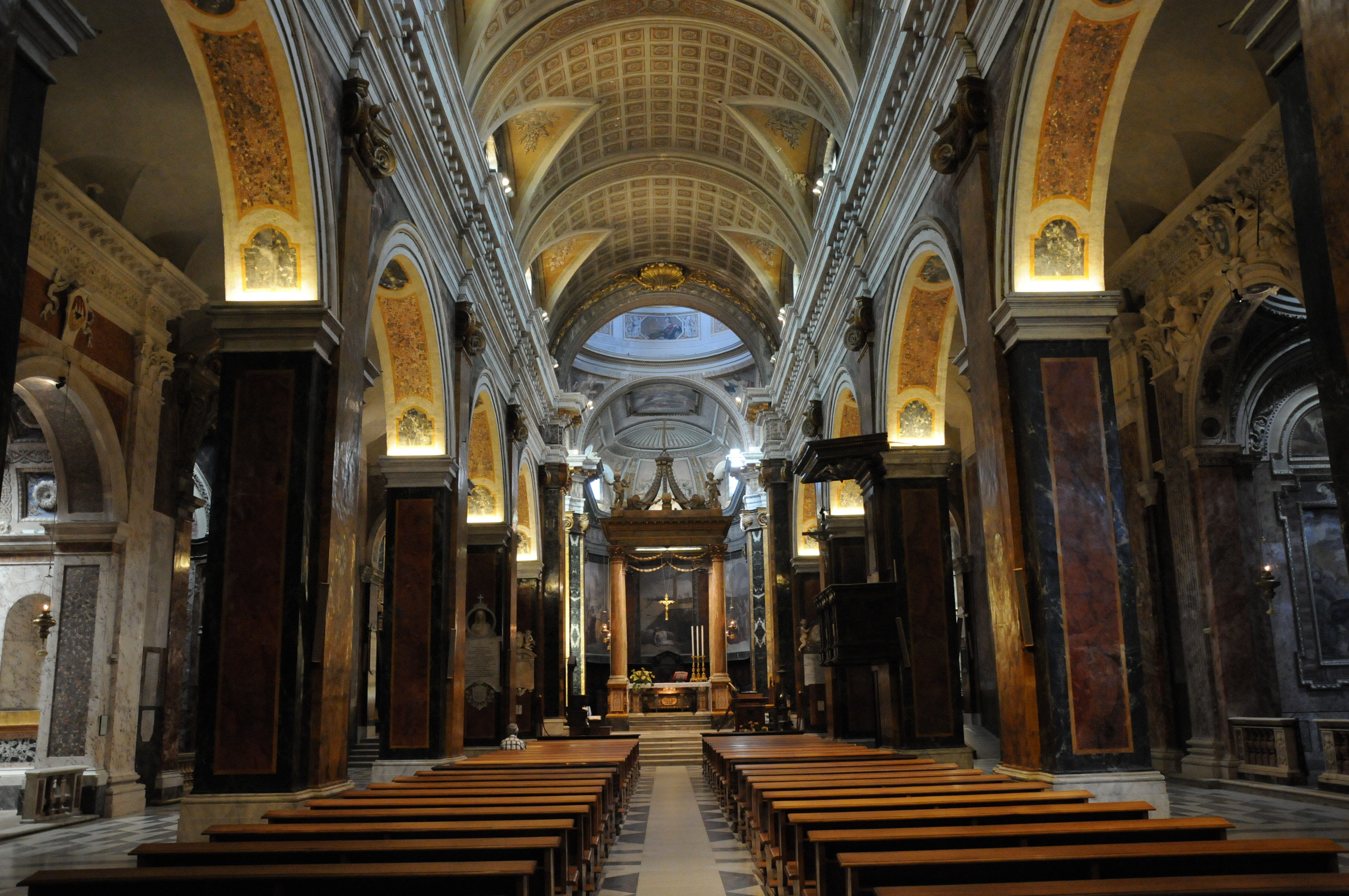 Santa Maria Cathedral - Rieti (Lazio, Italy